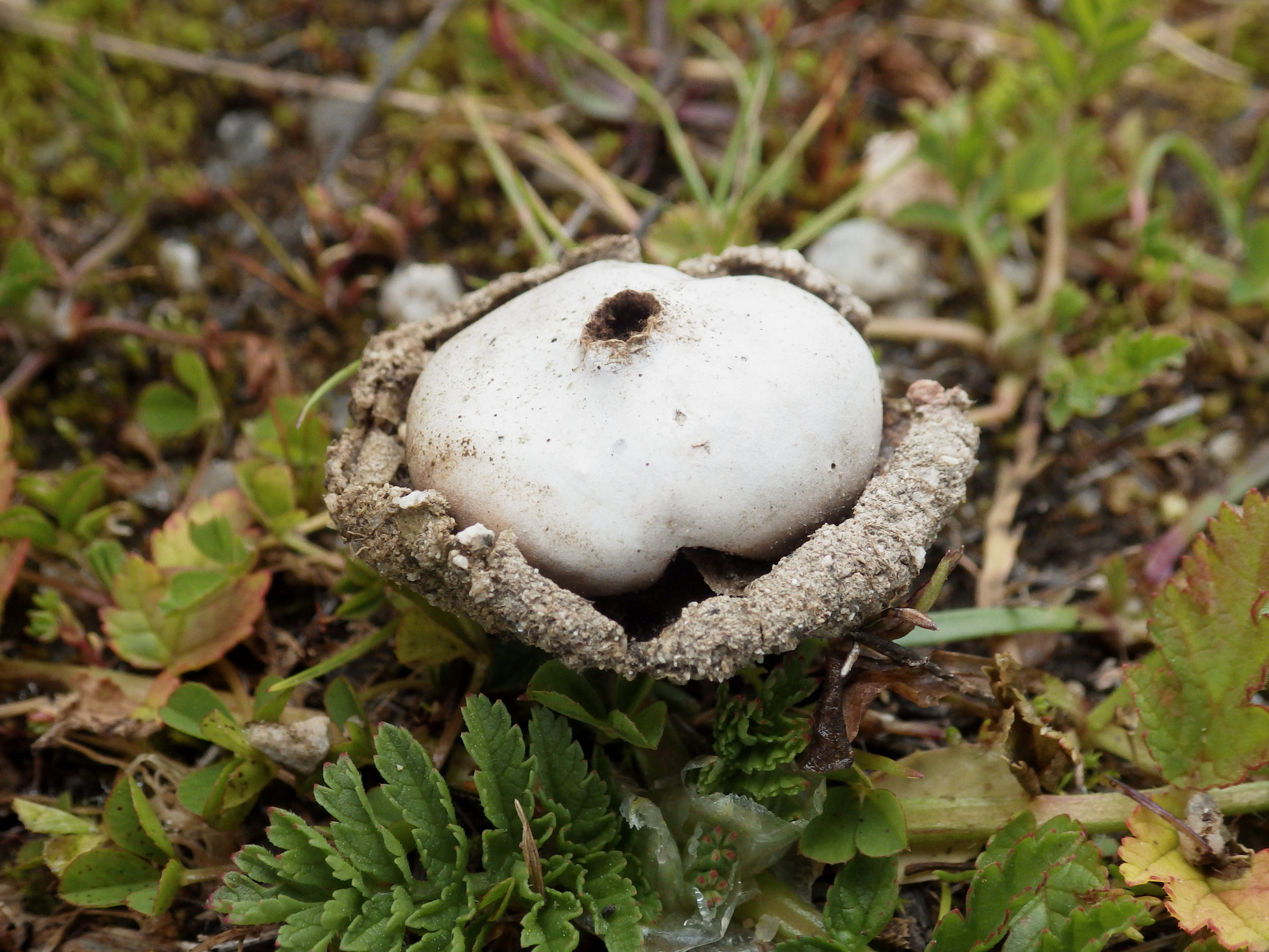 A fruit body of the gasteroid fungus Disciseda bovista. Photographed in Serra de São Mamede, Portugal. "Notes: This looks like an Astraeus hygrometricus lacking the rays."